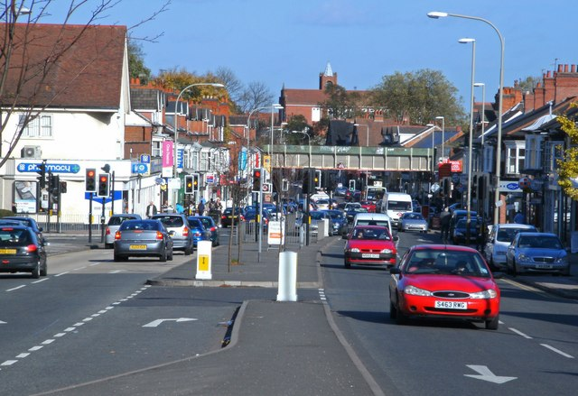 The busy Narborough Road Heading towards Leicester city centre.